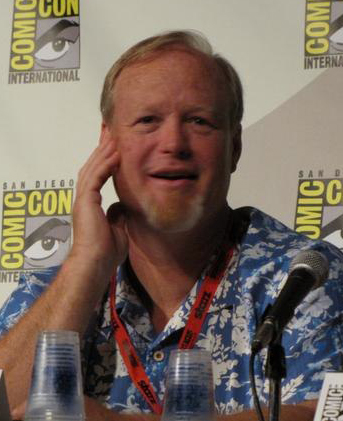 American actor Bill Fagerbakke sitting on the SpongeBob SquarePants panel at the 2009 San Diego Comic-Con